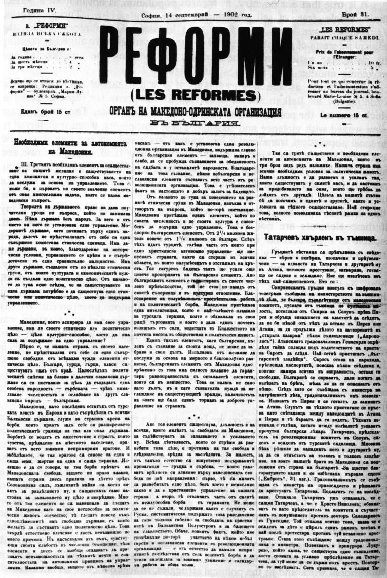 Page from SMAC`s newspaper "Reforms", stated "From 2.5 milion people in Macedonia, 1.1/4 are Bulgarians.."